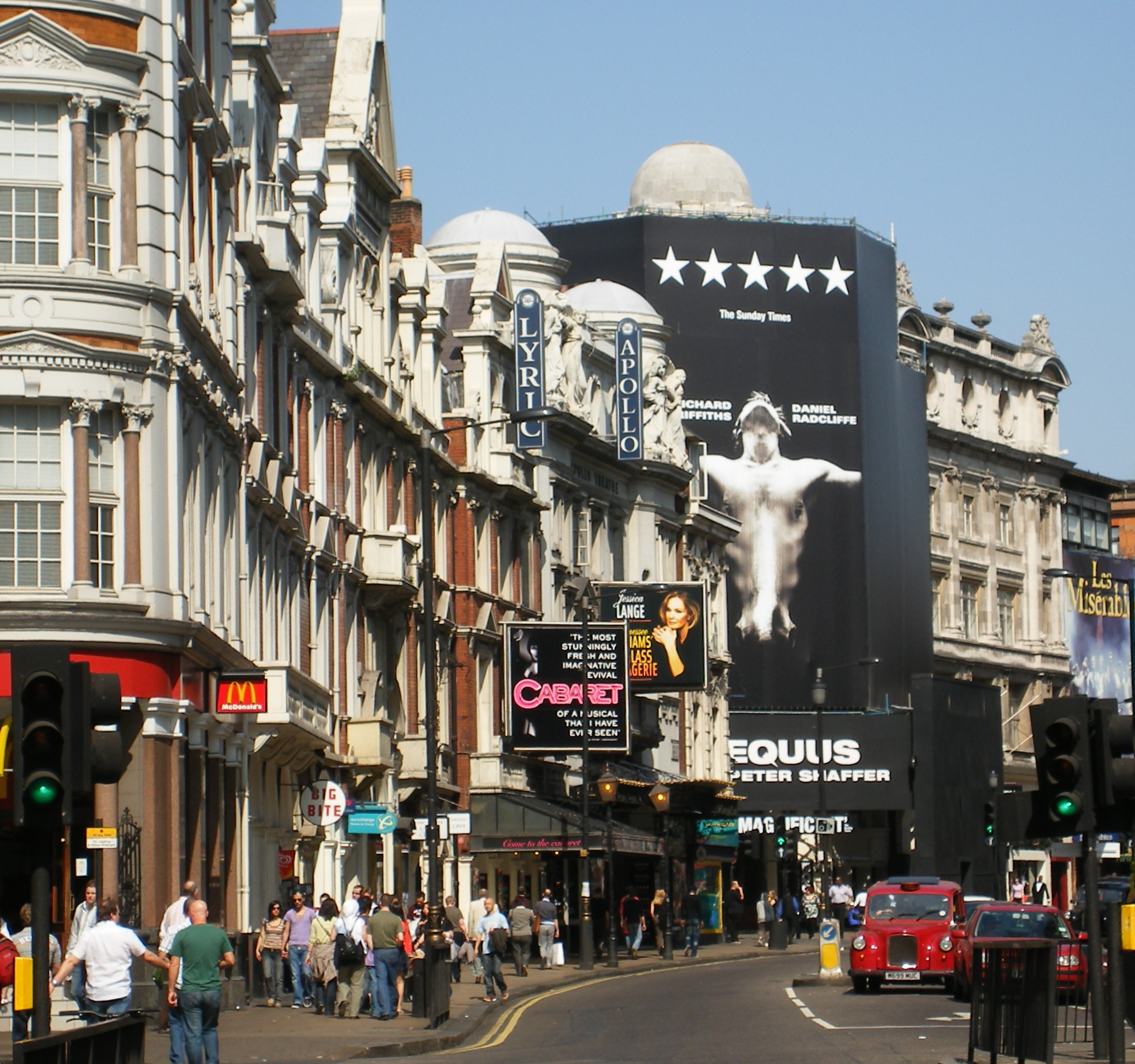 A picture of Gielgud Theatre